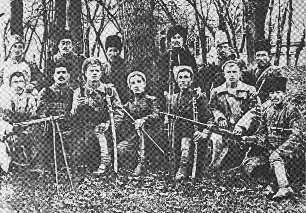 A group of “the Mughani rangers” and “loyal Tatars”/ late 1918. Seated in the middle is Captain Khoshev (at that time – 1st Lieutenant)